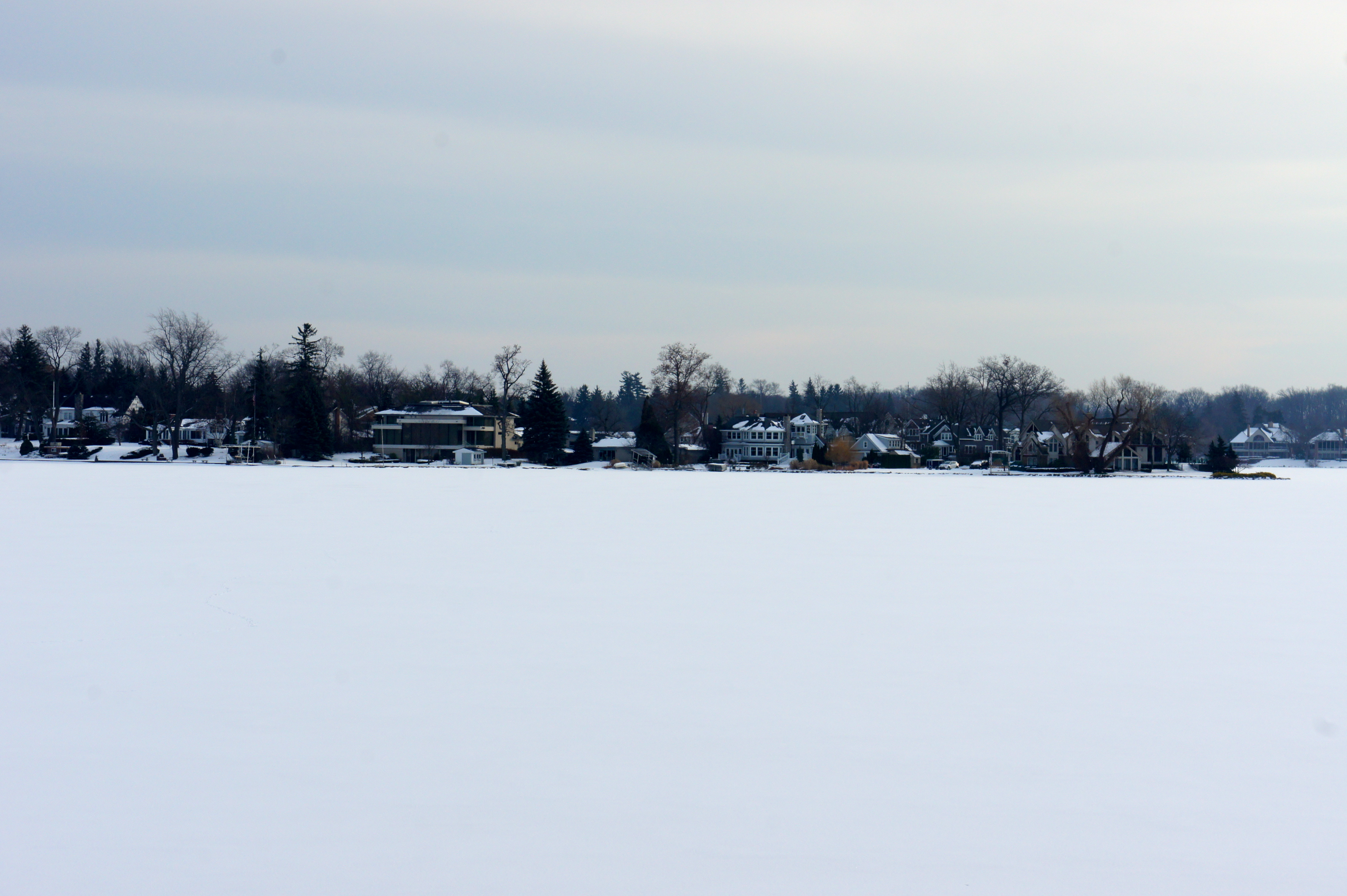 A view of Pine Lake in West Bloomfield Township, Michigan in the winter.